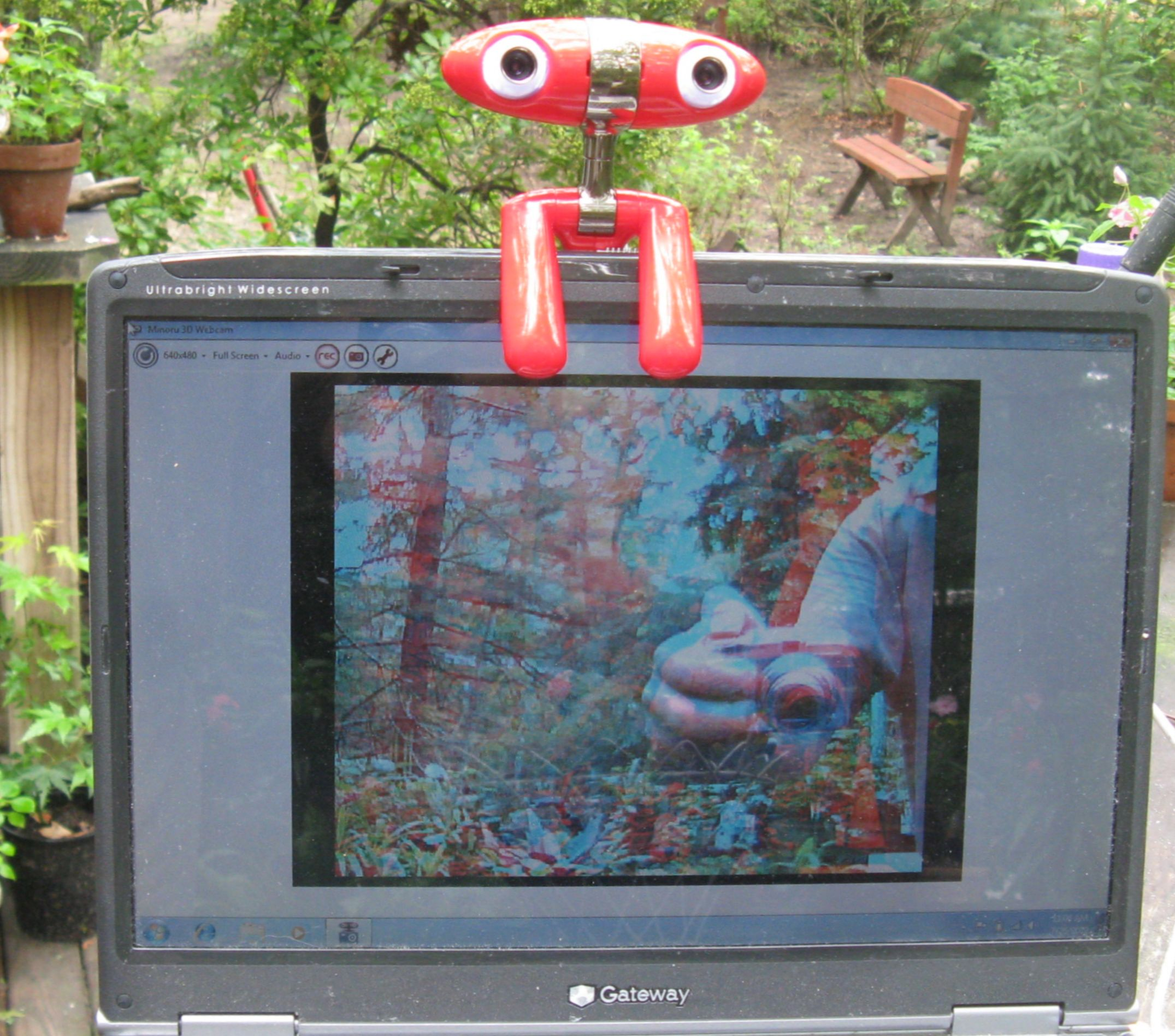 Minoru 3d webcam with screen shot